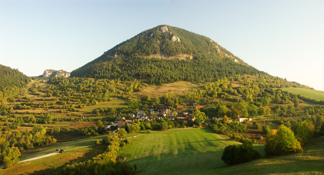 Vlkolínec village under Sidorovo Mountain in the Greater Fatra Range, Slovakia